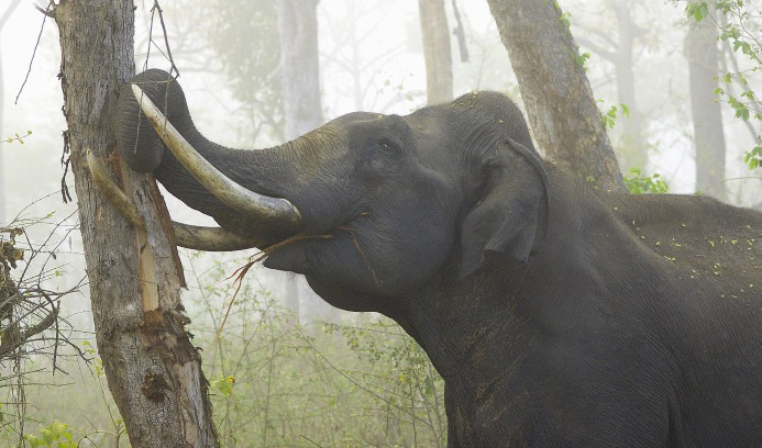 Tusker debarking a tree in Kabini